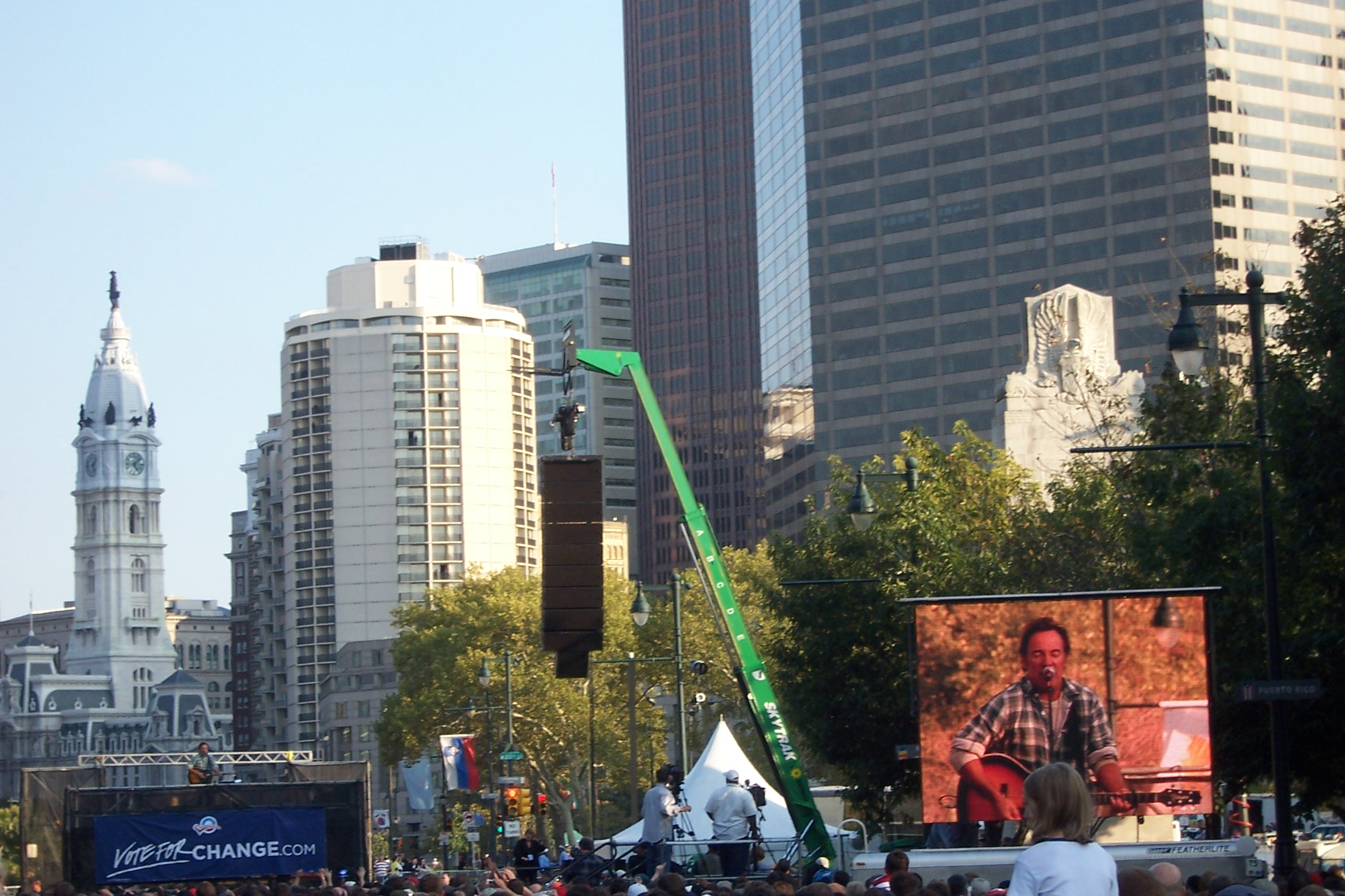 Bruce Springsteen performing late in his appearance at the Change Rocks voter registration rally for Barack Obama, in Philadelphia on the Benjamin Franklin Parkway